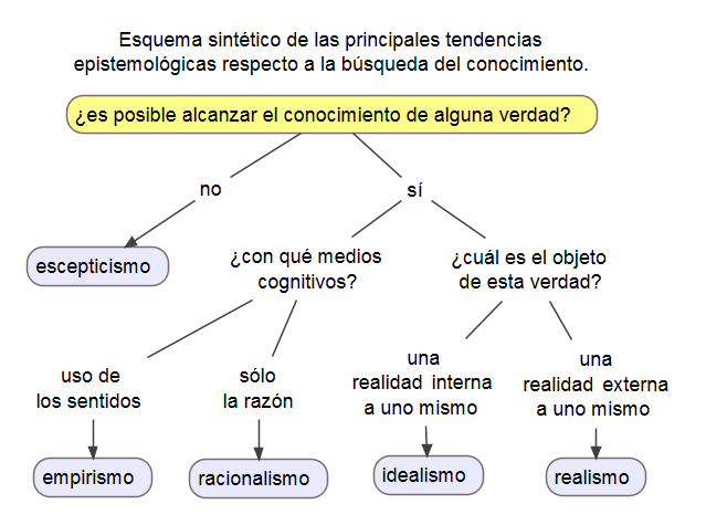 Esquema sintético de las principales tendencias epistemológicas respecto a la búsqueda del conocimiento.